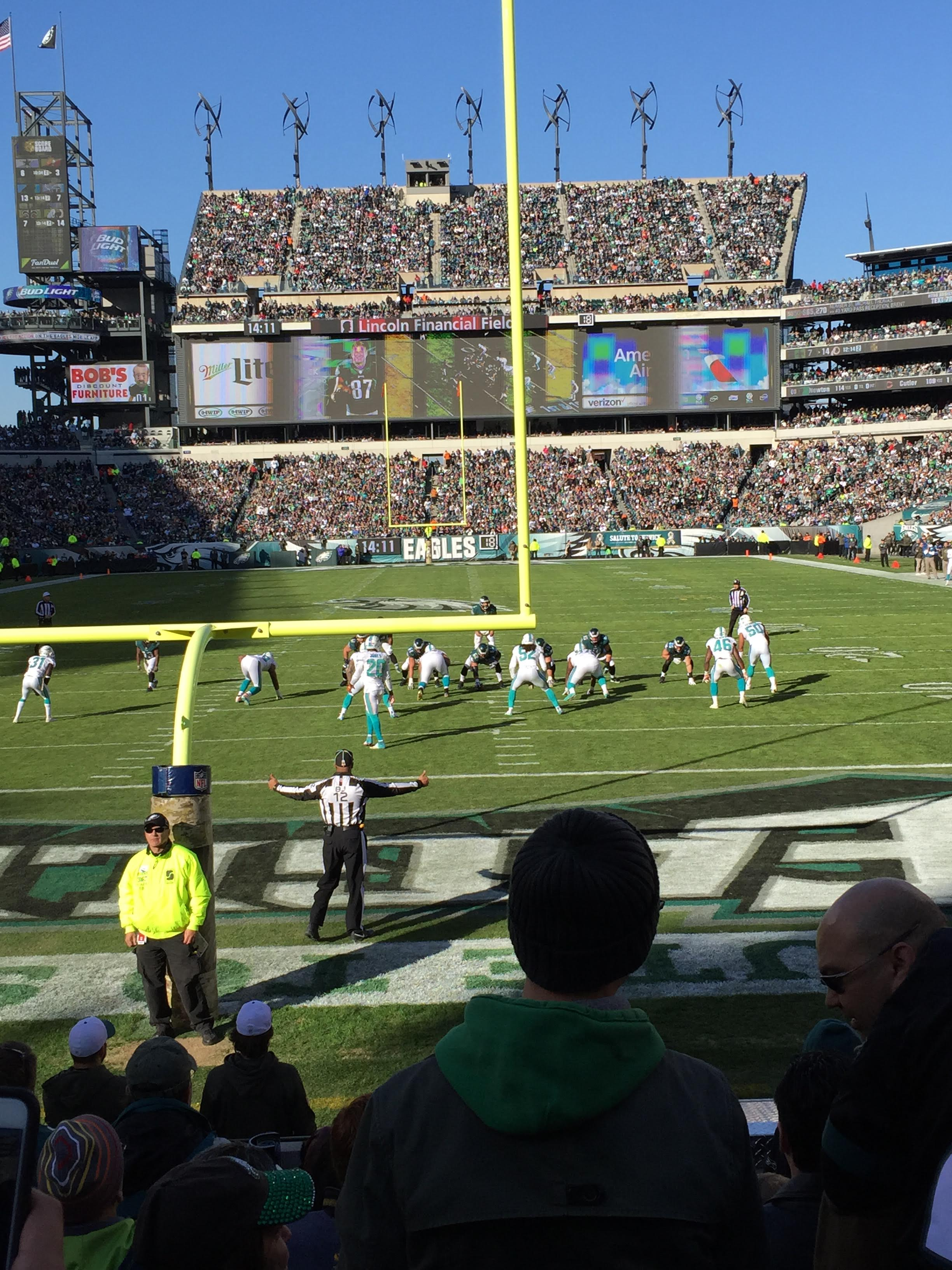 Photo from Week 10 of the 2015 NFL season, featuring the Miami Dolphins playing the Philadelphia Eagles at Lincoln Financial Field